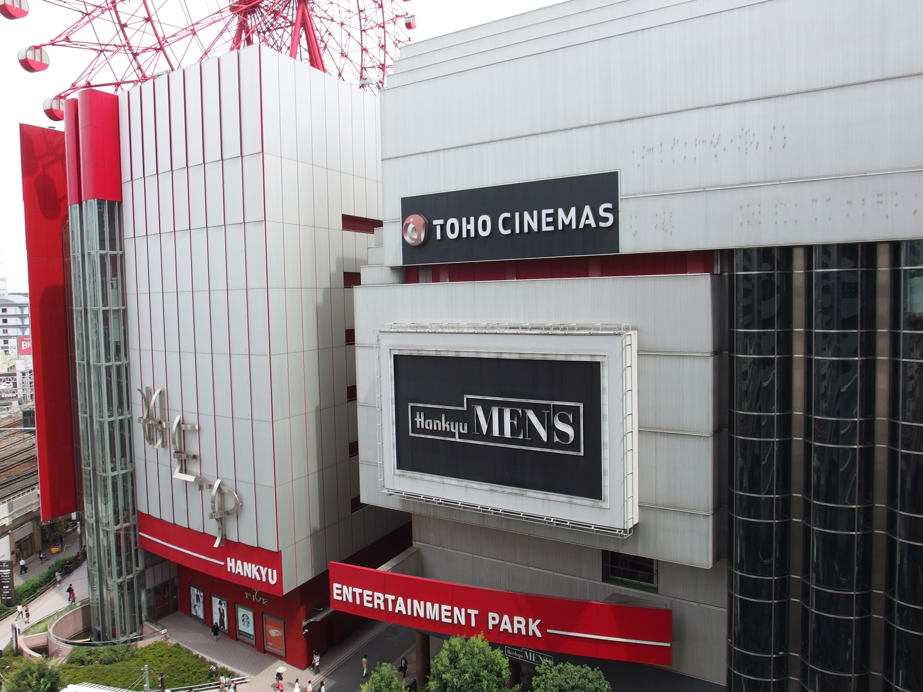 HEP Five, Osaka, Osaka Prefecture, Japan